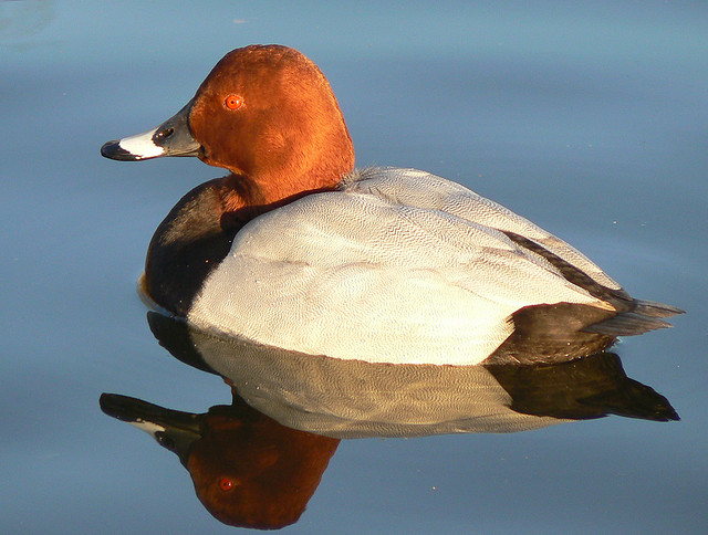 Taken in Regents Park